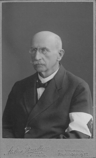 Photograph of the Finnish teacher and politician Emil Gerhard Åkesson (1858–1930).